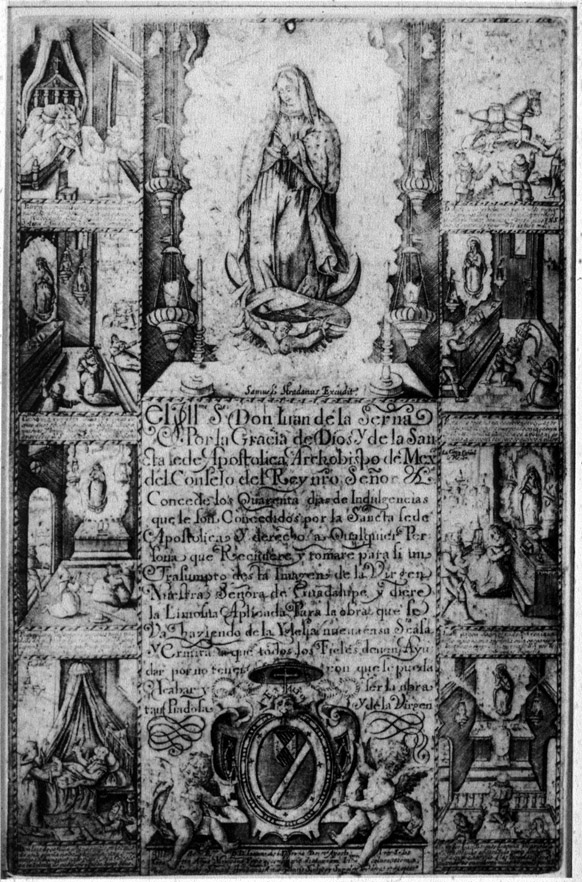 Indulgence for donation of alms towards the building of a Church to the Virgin of Guadalupe (1622)